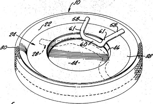 Shiley valve used to replace a defective heart valve